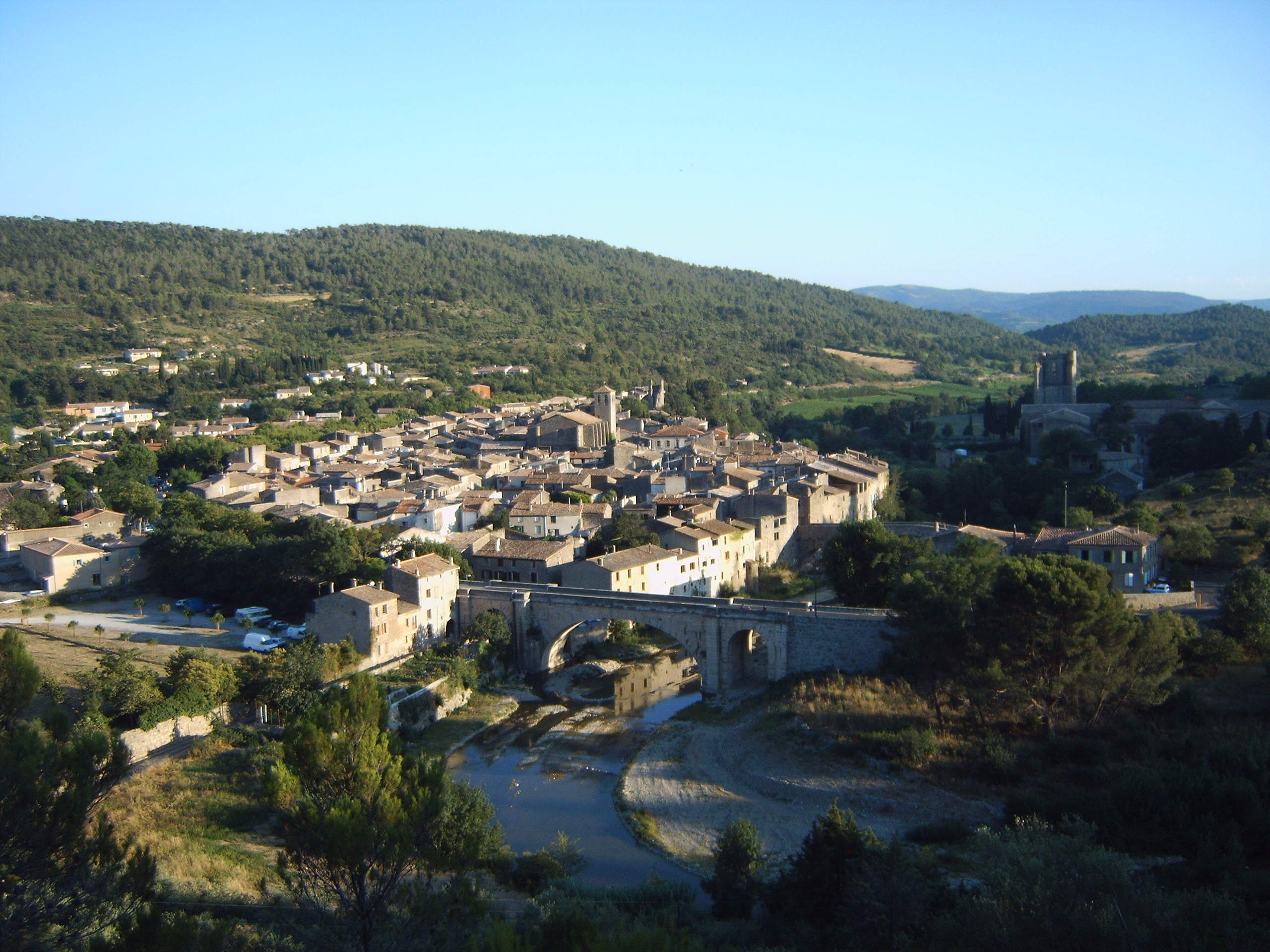 View of Lagrasse, Dept. Aude, France